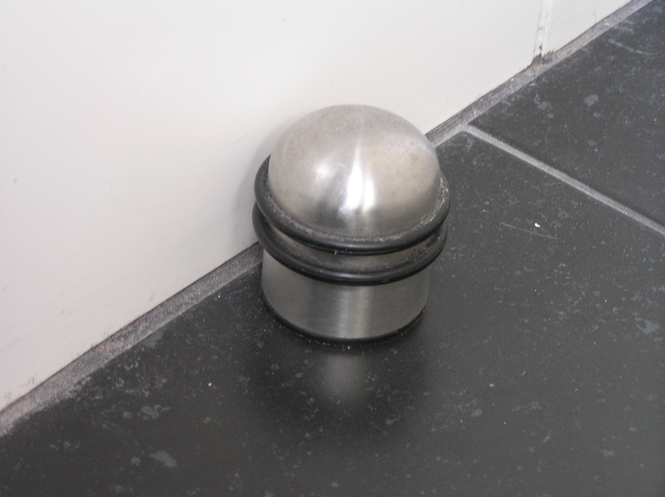 Mobile door stop